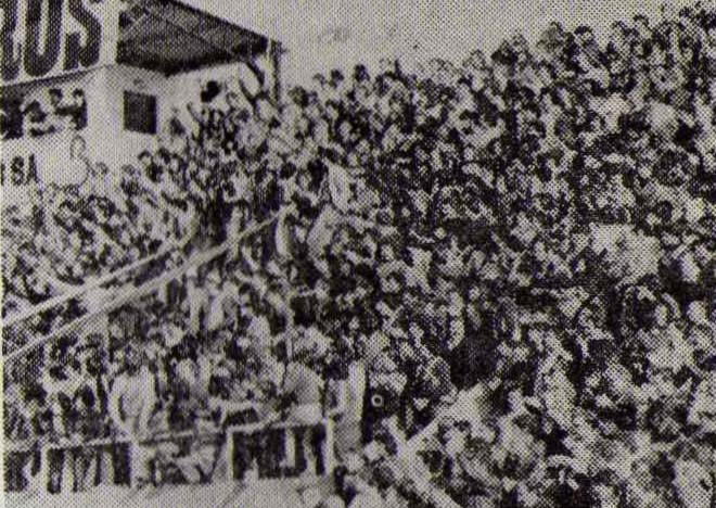 Estudiantes' new grandstand full of supporters, during its inauguration in 1980.